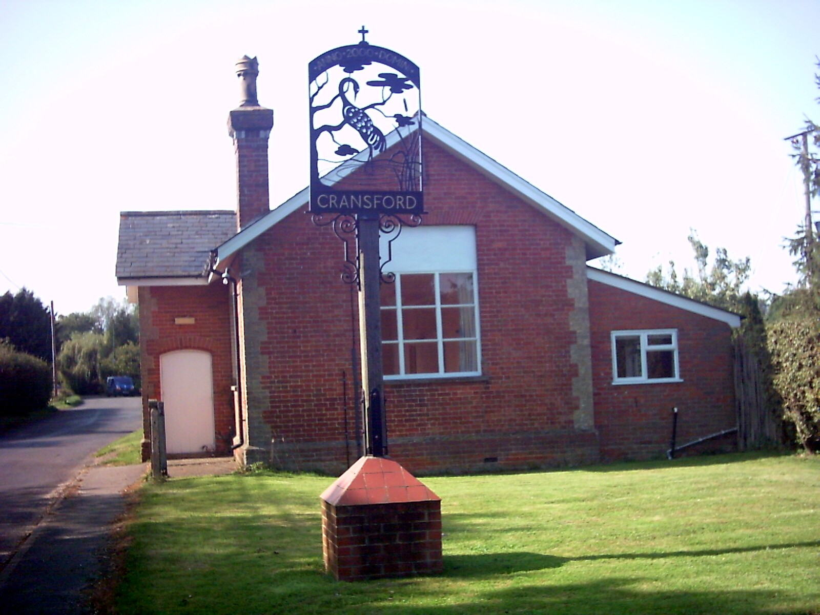 Cransford Village Hall.